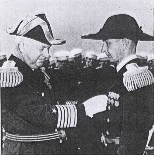 Vice Admiral Edward C. Kalbfus presents the Navy Cross for extraordinary heroism to Lt. Arthur Ferdinand Anders. Anders was the Executive Officer of the US gunboat Panay in the Yangtze River, when it was attacked by Japanese aircraft on December 12th, 1937. When the Panay skipper was disabled, Anders assumed command. Shortly thereafter, flying shrapnel ripped into his throat. Unable to speak, Anders continued by writing orders on the deck in chalk until both hands were wounded.